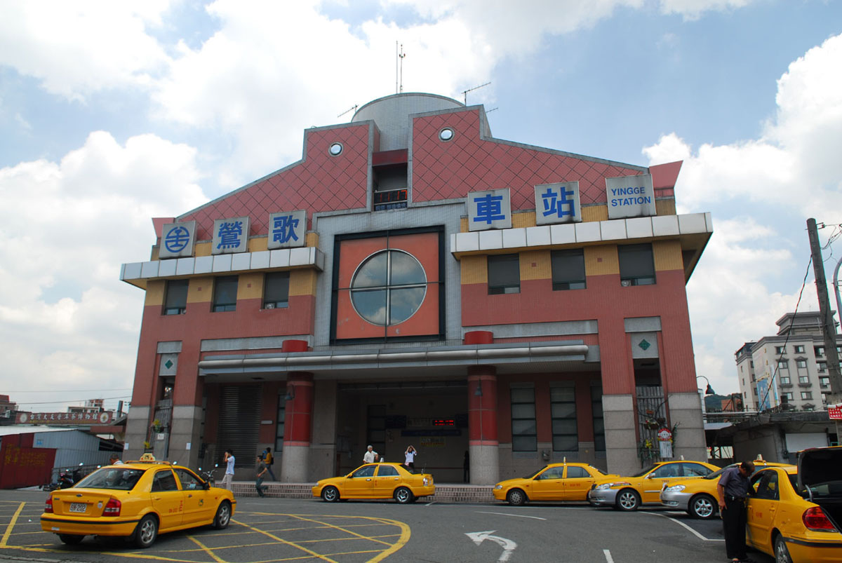 Yingge Station is a local train station of Taiwan's Western Main Line. This train station is the central station of Yingge Town, Taipei County.